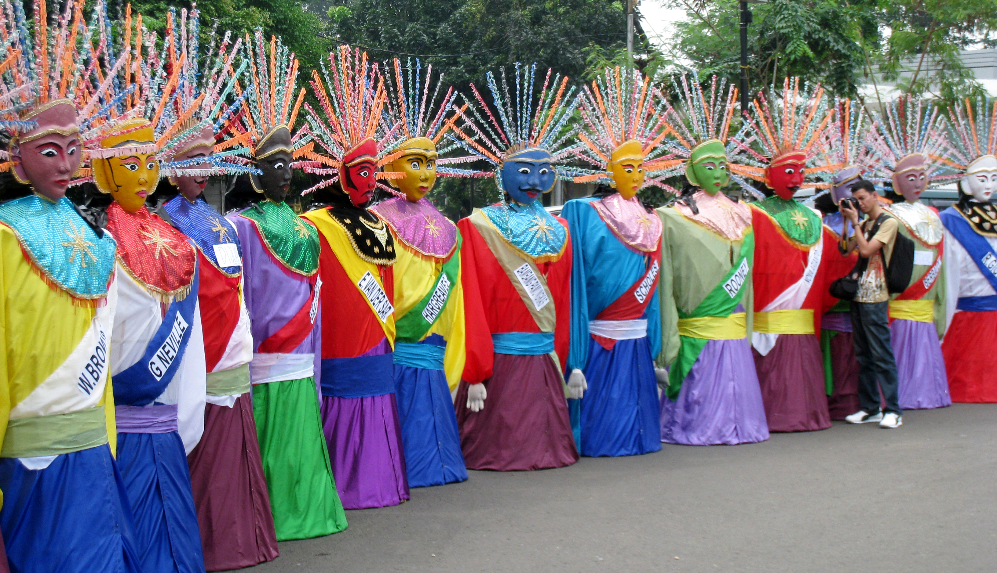 The parade of Ondel-ondel on main street of Jakarta during car free day. The Ondel-ondel was named several famous football player.